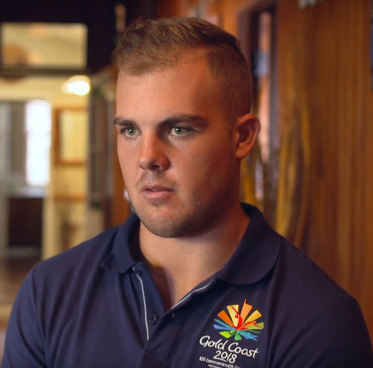 Cropped video still of Matthew Denny speaking on the Gold Coast about the 2018 Commonwealth Games